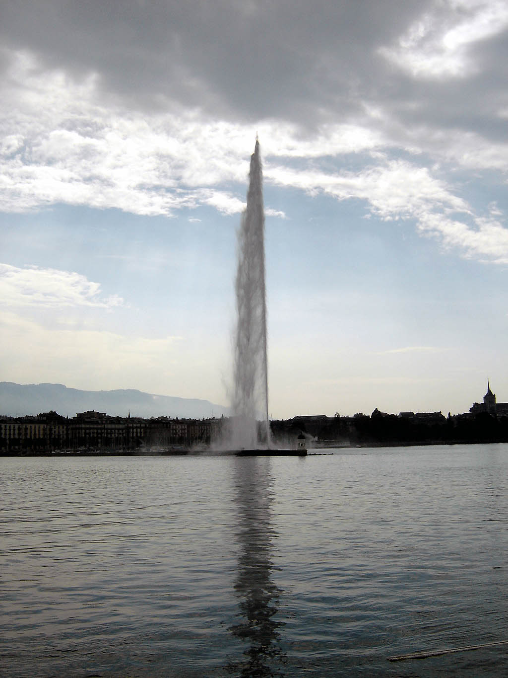 Jet d'eau of Geneva, September 2005.